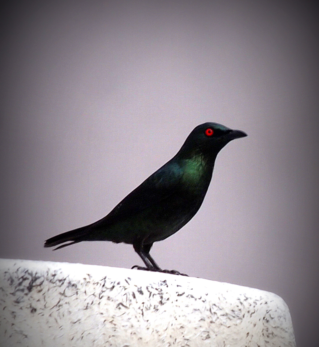 Aplonis panayensis in Malaysia